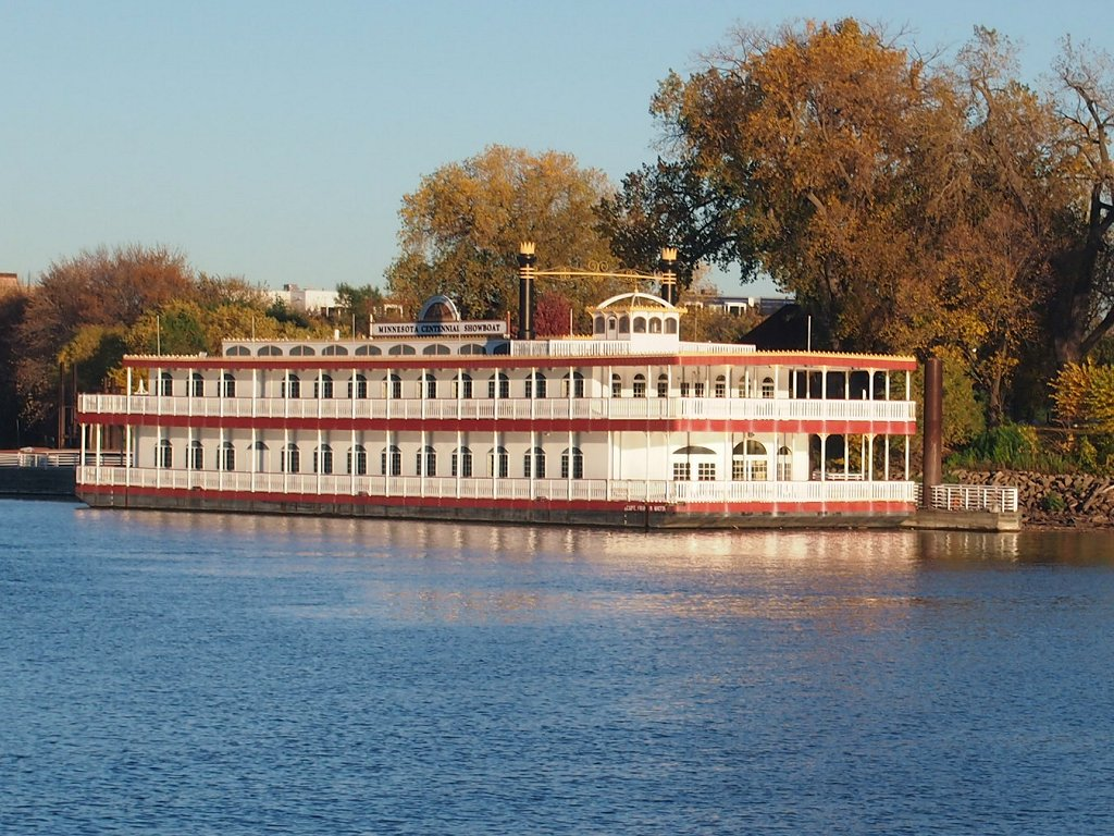 Minnesota Centennial Showboat, moored at Harriet Island Regional Park, St Paul, Minnesota, USA. Viewed across the Mississippi River from Upper Landing Park.